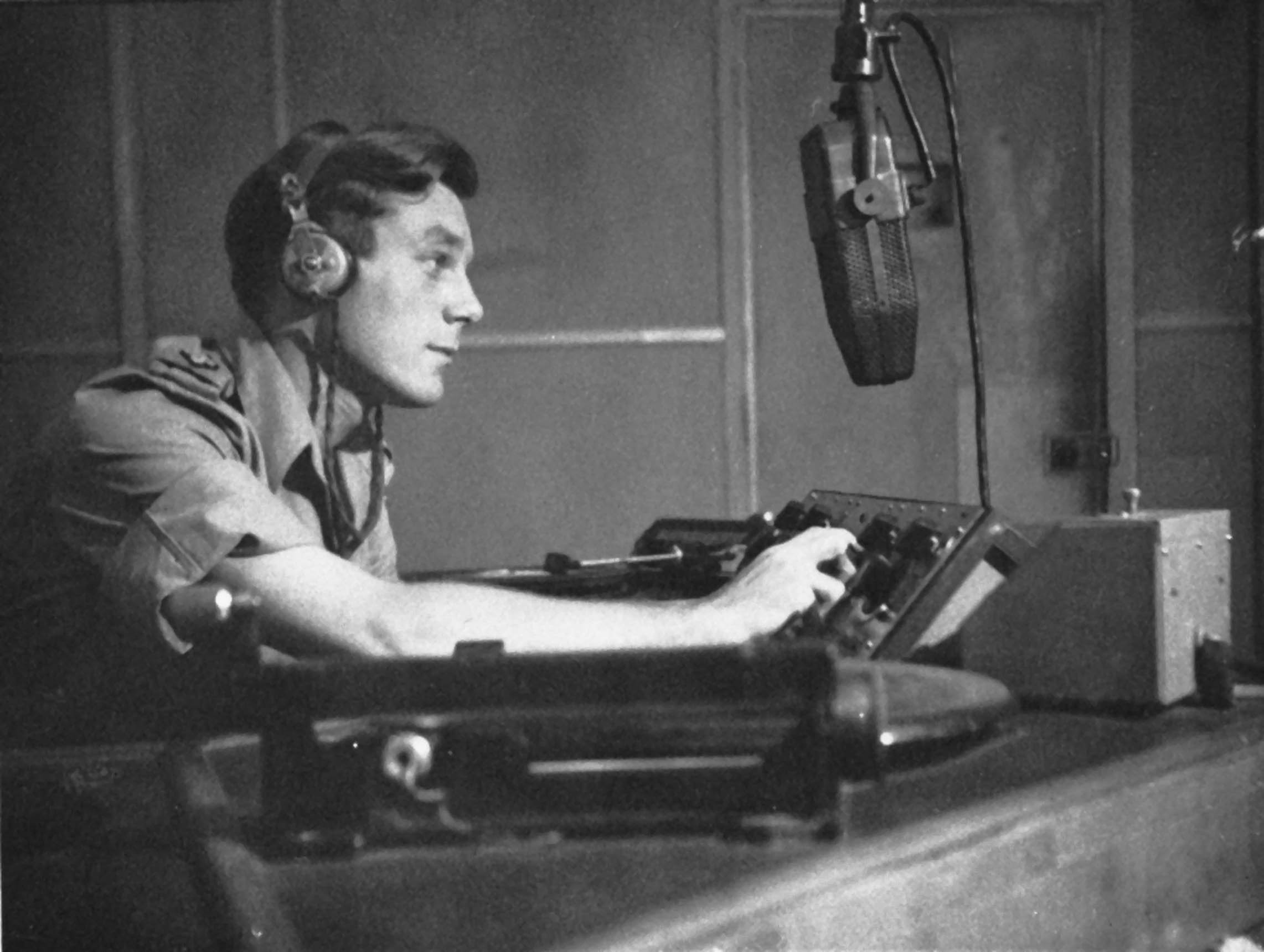 A black and white photograph of British disc-jockey Desmond Carrington, in the studio, taken in 1946, presumably at the British Forces Broadcasting Service (BFBS) radio station in Colombo, Ceylon.